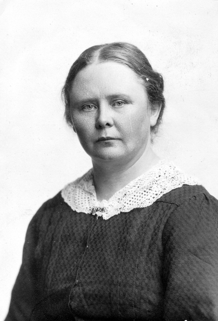 Portrait of Maria Qvist (married: Månsson), 1936. Also known as Maja Månsson.